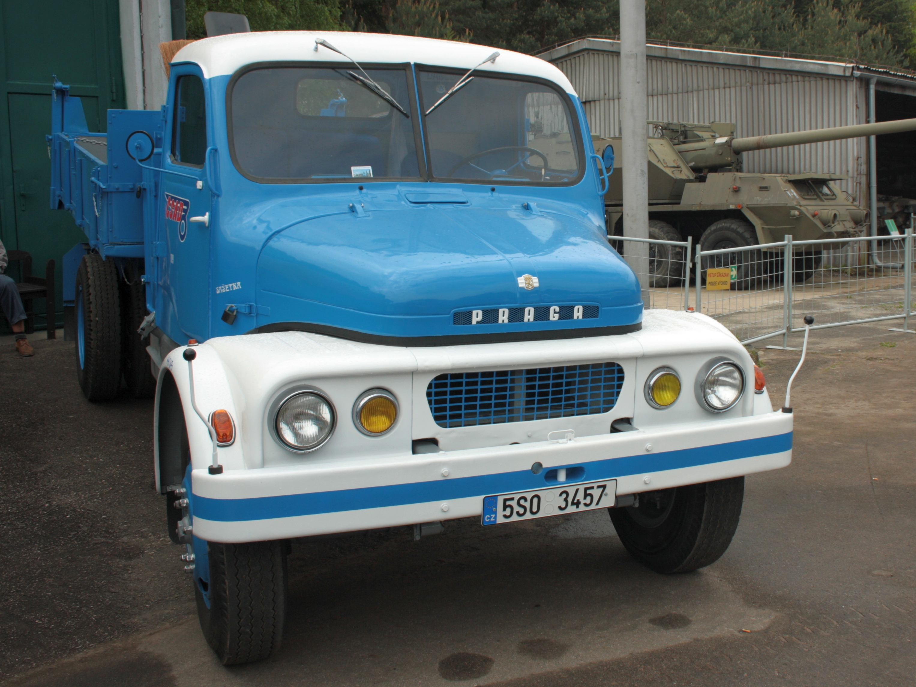 Renovated Praga S5T truck in Lešany military museum, Central Bohemian Region, CZ This photograph was taken with a DSLR from WMCZ's Camera grant. This picture was taken and/or got within the scope of the 'Acquiring scientific and specialized pictures' grant.